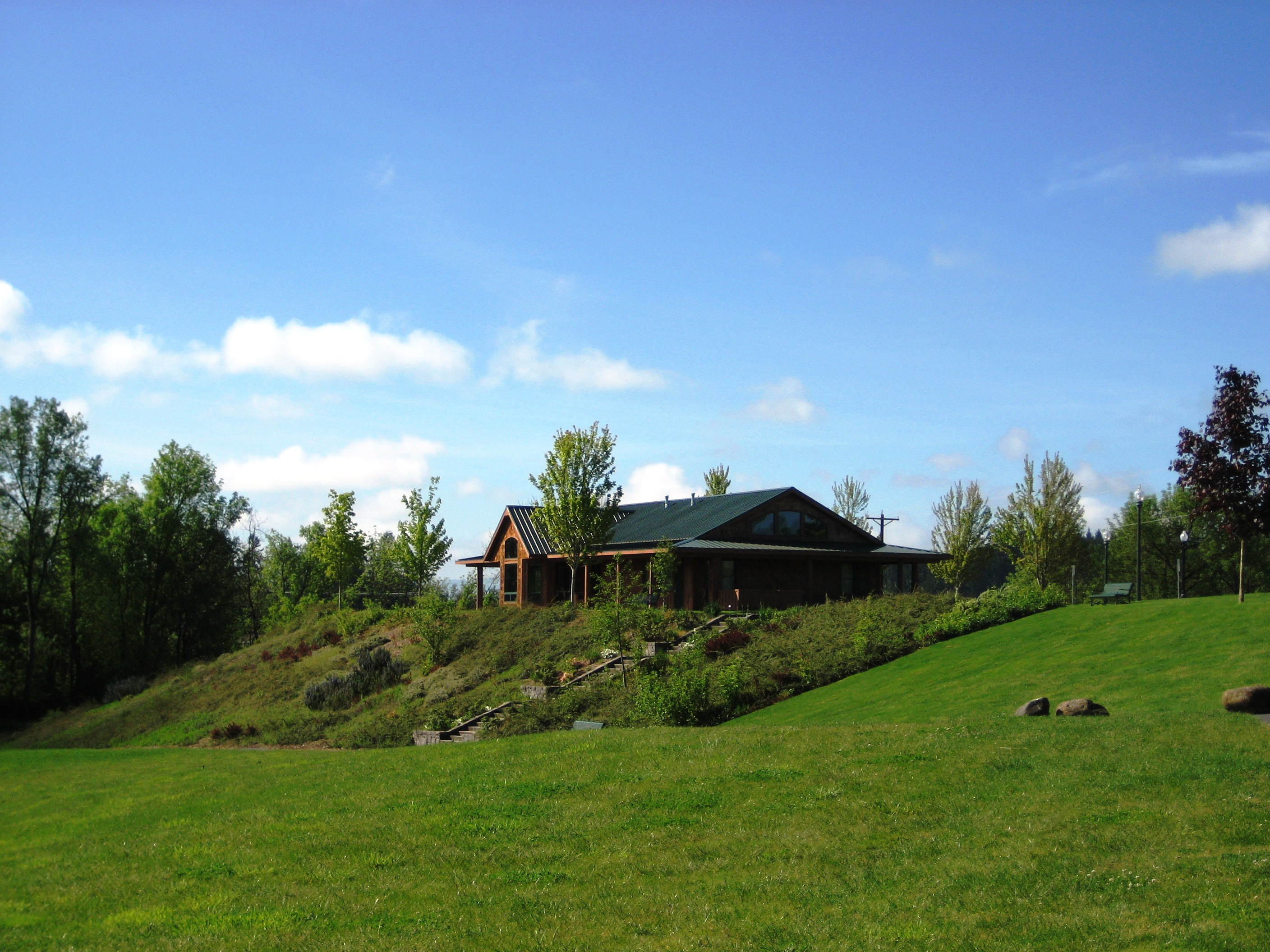 Rood Bridge Park in Hillsboro, Oregon, USA